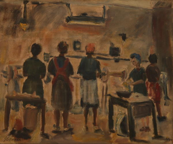 Workers in a NY Sweatshop, Oil on Canvas, painted by Soshana, 1944 Workers in a NY Sweatshop, Öl auf Leinwand, gemalt von Soshana, 1944